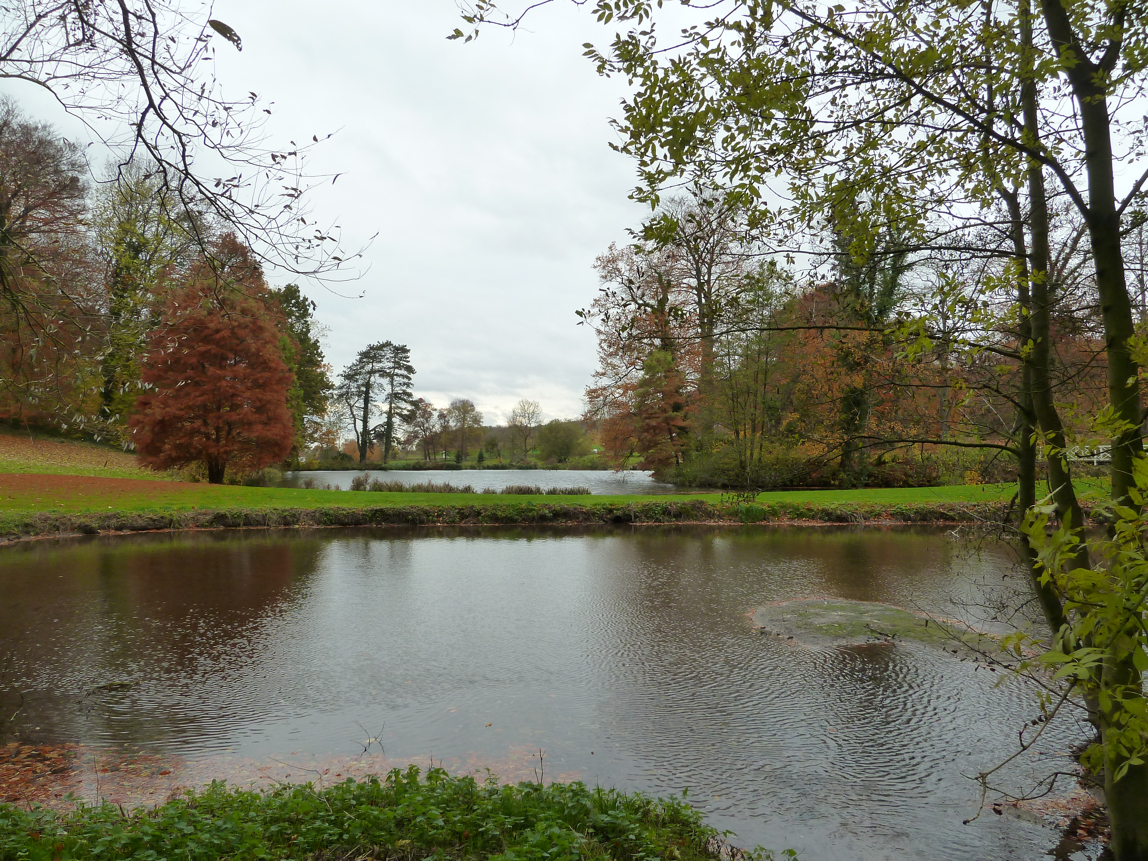 Castle Vliek, Ulestraten, Limburg, the Netherlands